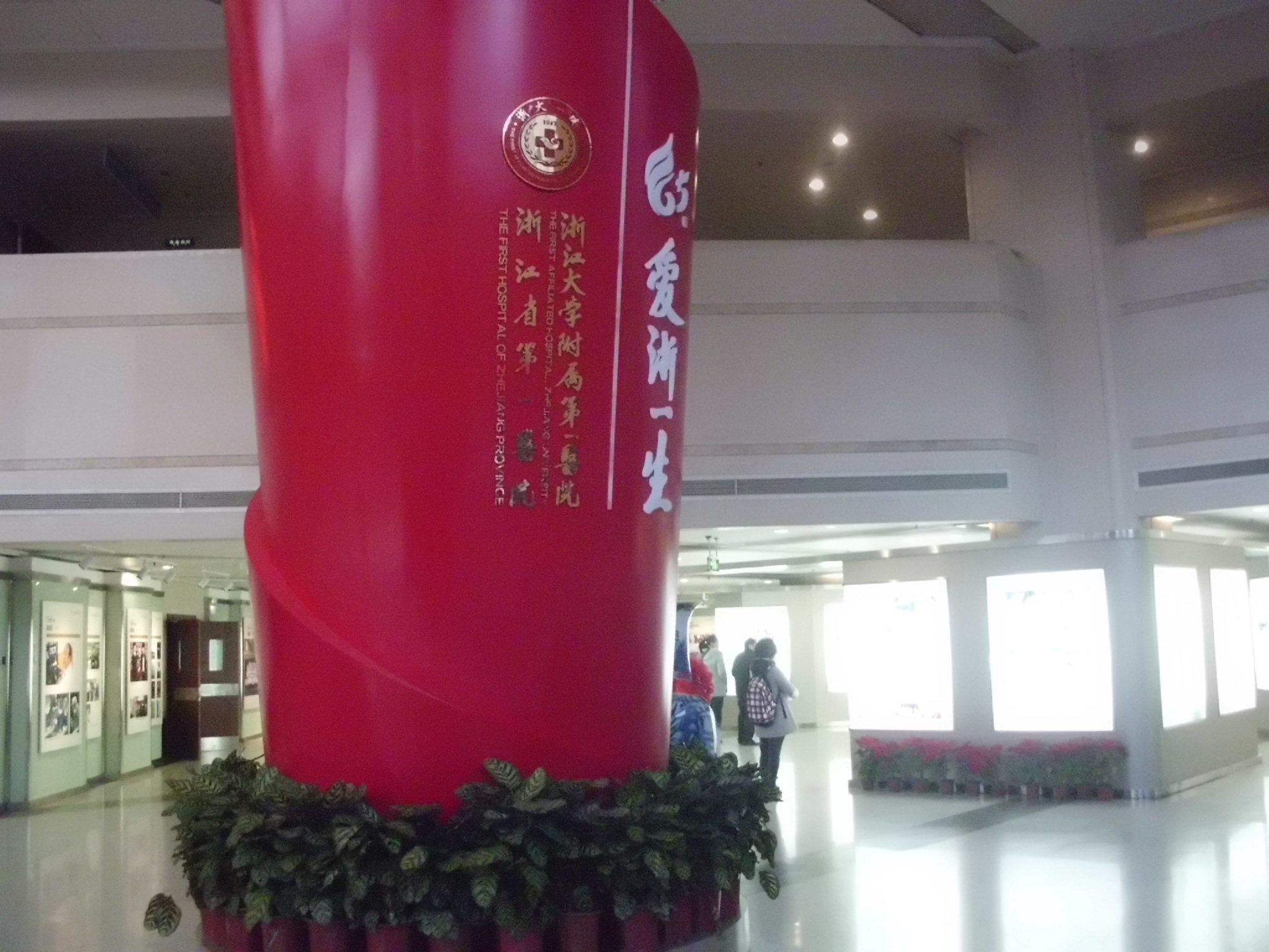 The First Affiliated Hospital of Zhejiang University School of Medicine